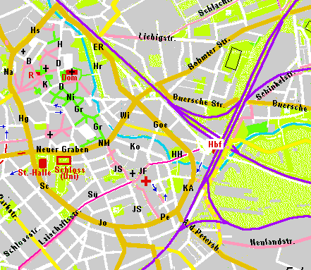 City center of Osnabrueck and its main station with rails in two levels